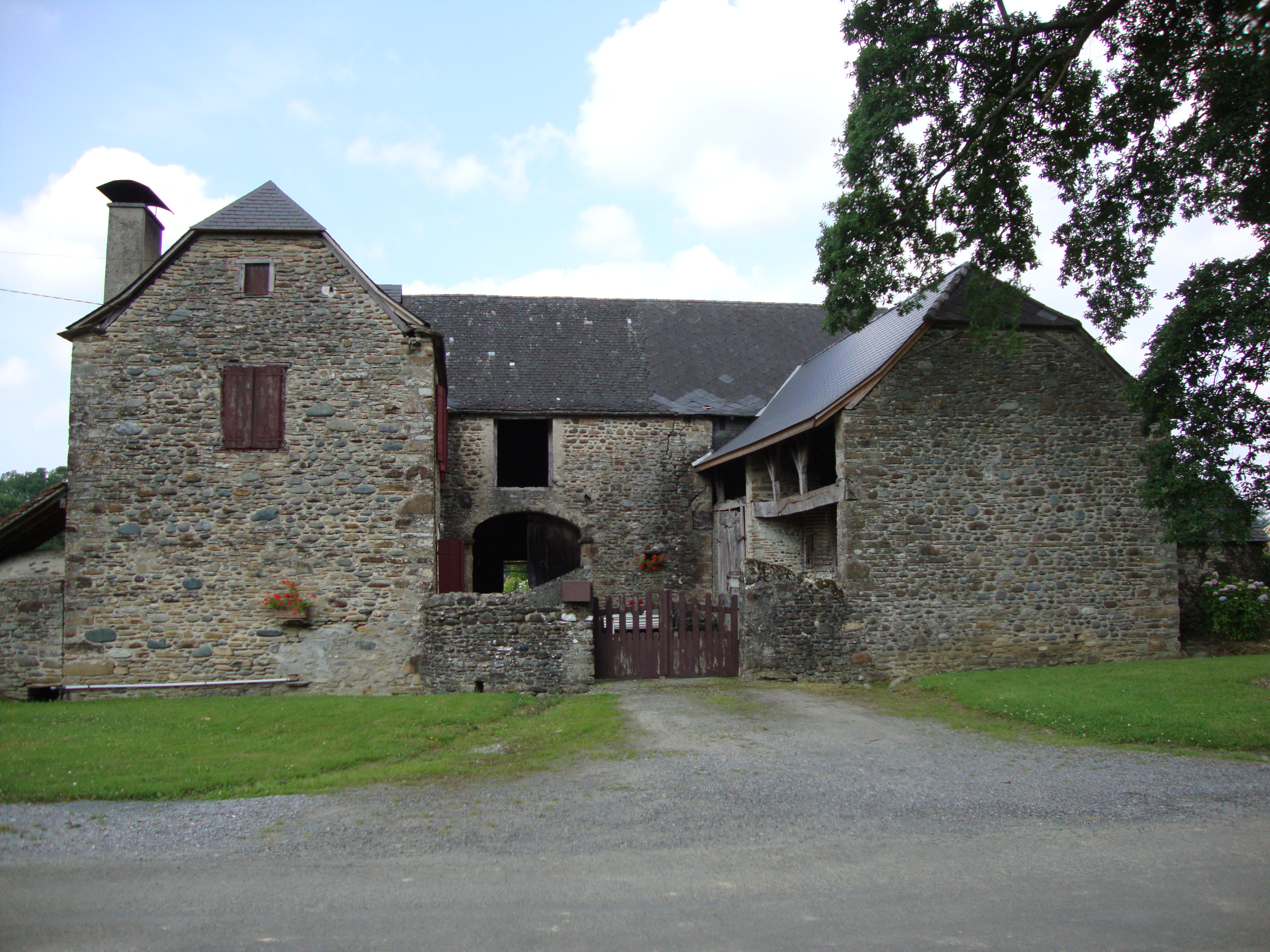 Poey d'Oloron (Pyr-Atl, Fr) farmhouse with walls built of river stones